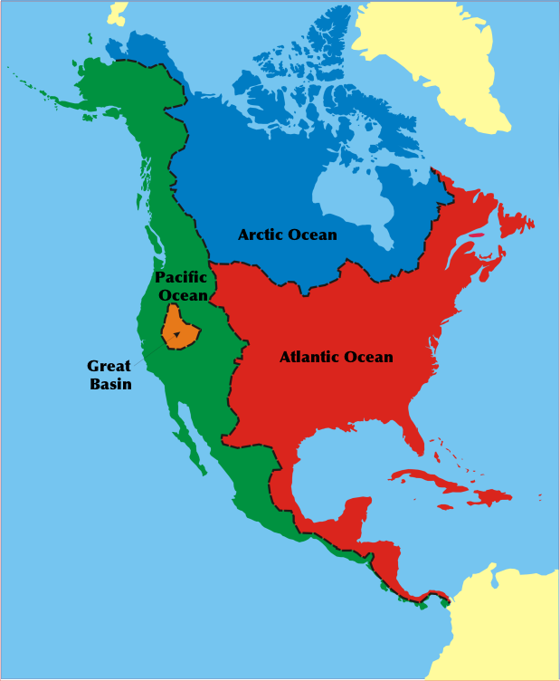 map of North American continent drainage divides